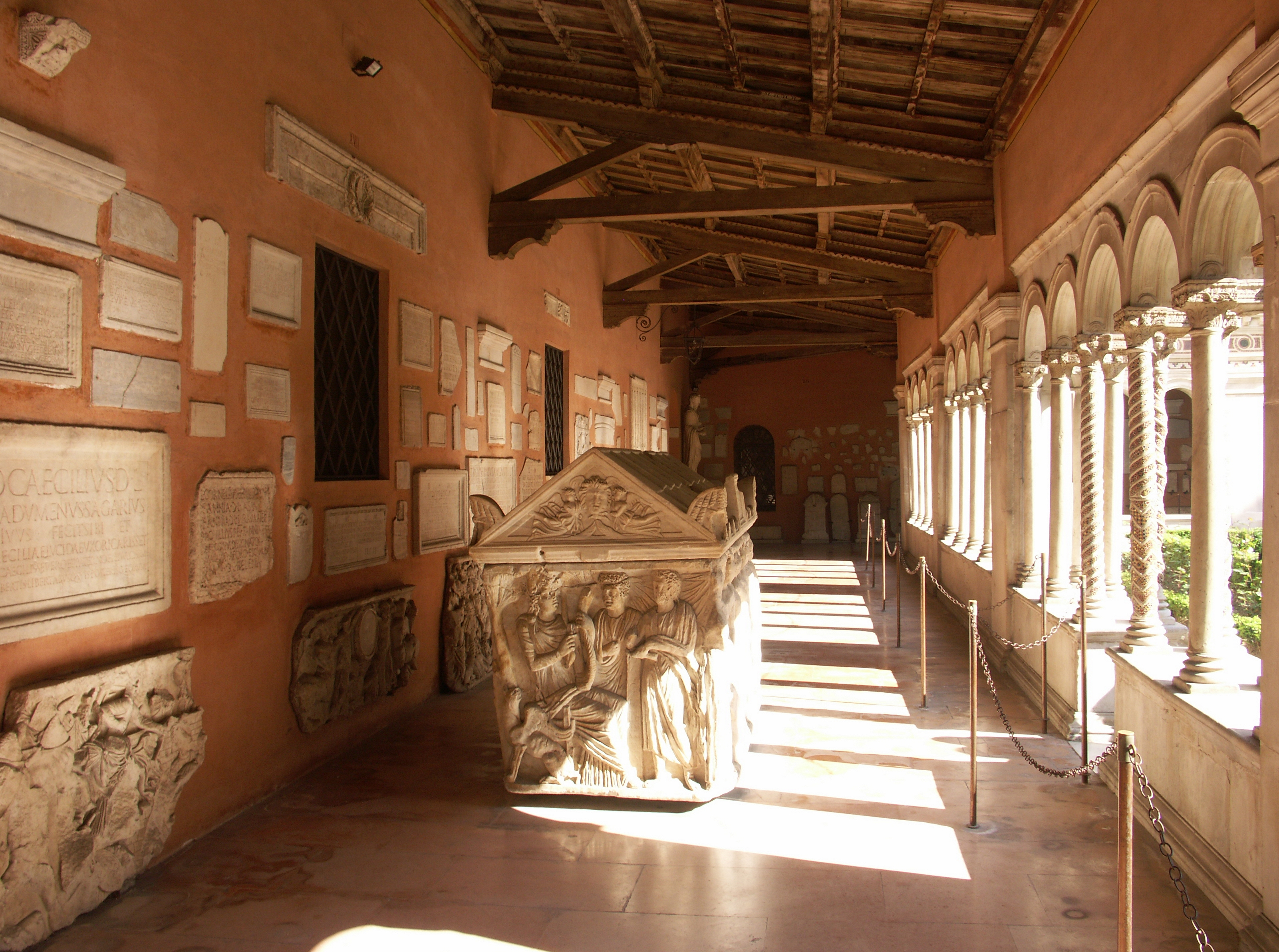 Rome, Saint Paul Outside the Walls, cloister